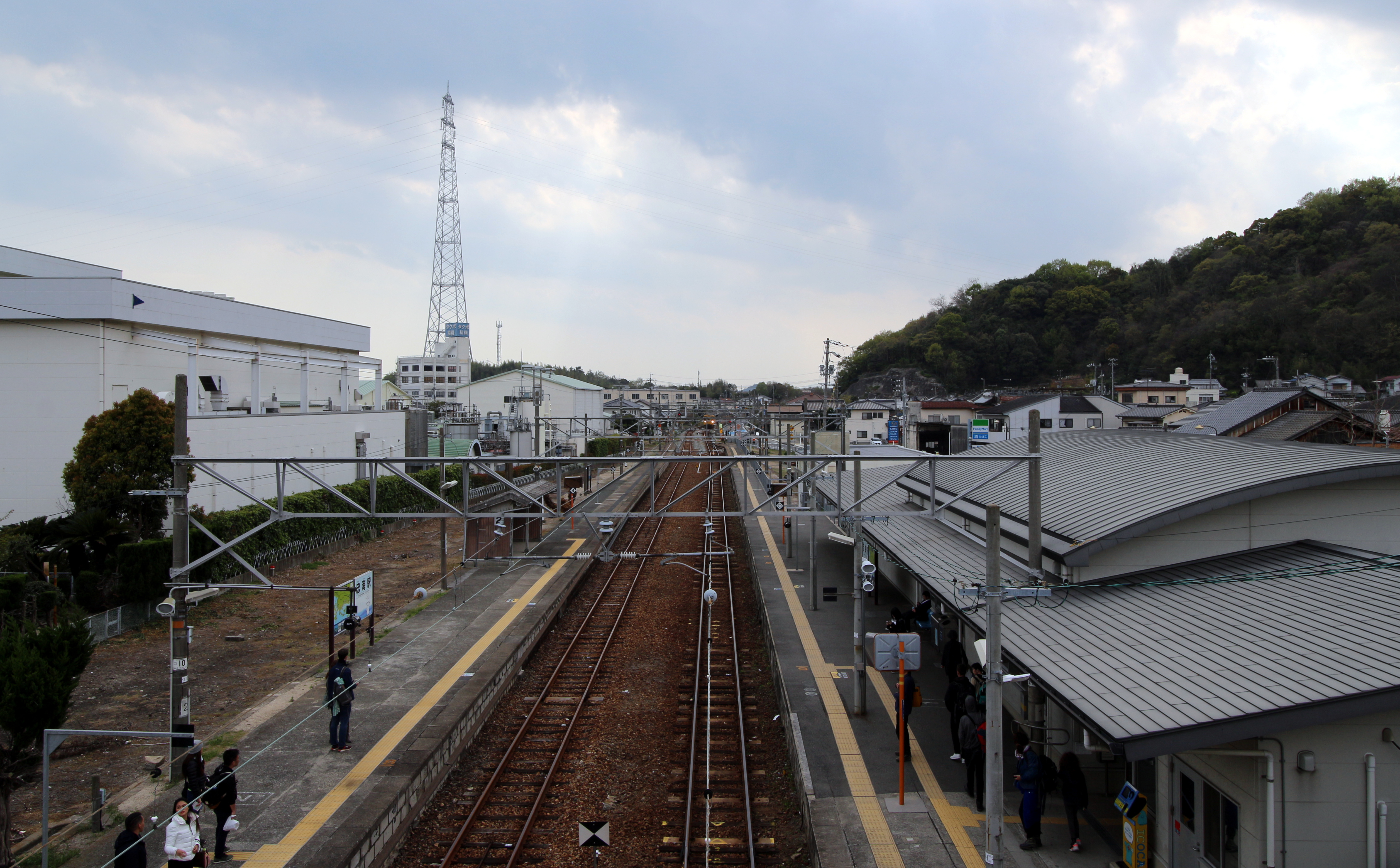 Tadanoumi Station in Takehara, Hiroshima prefecture.